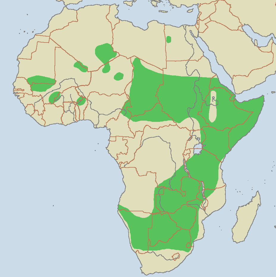 The range of the cheetah. Started with Brion VIBBER's map and based range on [1].